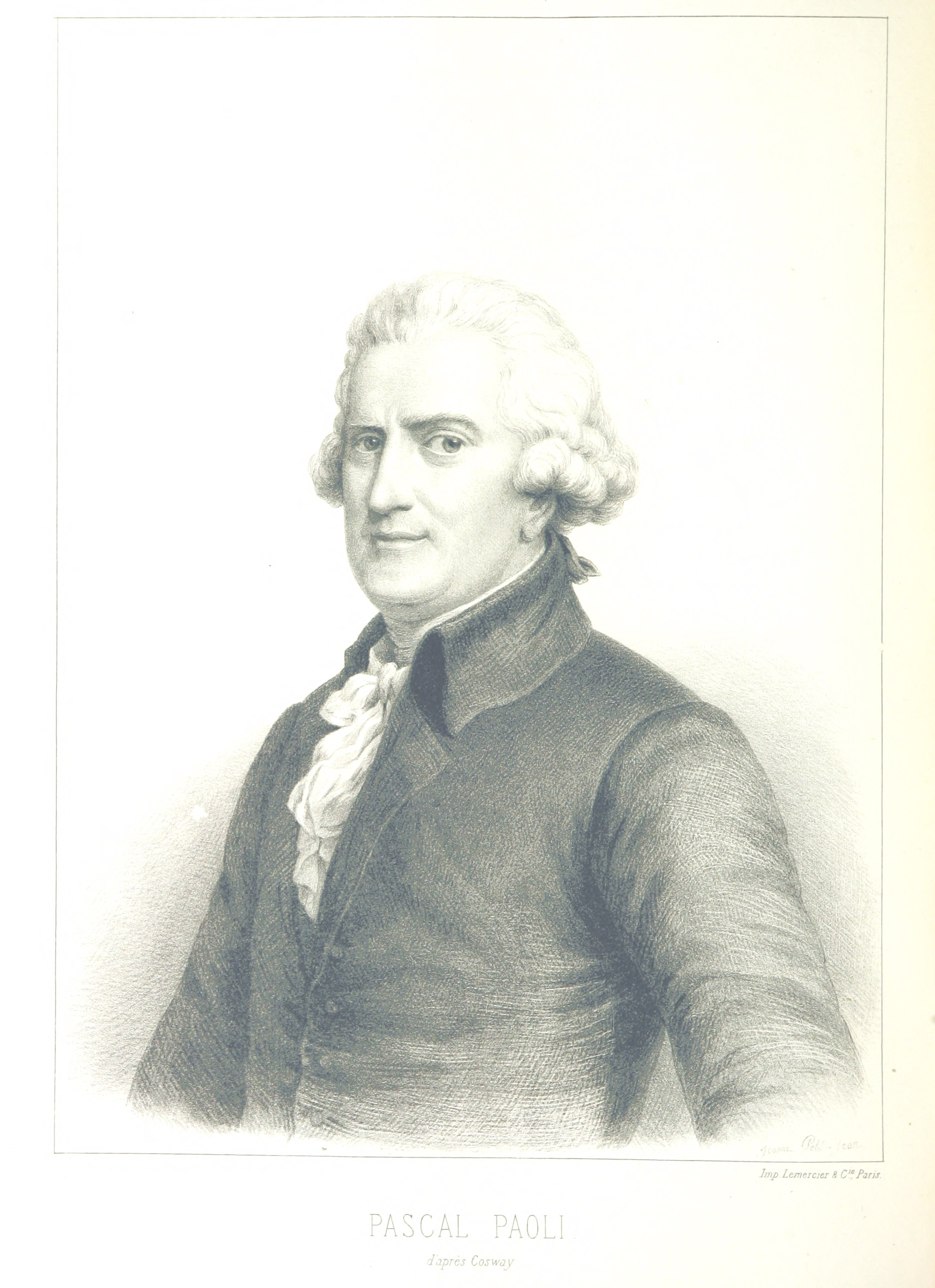 Image taken from: Title: "Histoire illustrée de la Corse, contenant environ trois cents dessins représentant divers sujets de géographie et d'histoire naturelle, les costumes anciens et modernes, etc" Author: GALLETTI, Jean Ange. Shelfmark: "British Library HMNTS 10171.h.7." Page: 586 Place of Publishing: Paris Date of Publishing: 1863 Issuance: monographic Identifier: 001355125 Explore: Find this item in the British Library catalogue, 'Explore'. Open the page in the British Library's itemViewer (page image 586) Download the PDF for this book Image found on book scan 586 (NB not a pagenumber)Download the OCR-derived text for this volume: (plain text) or (json) Click here to see all the illustrations in this book and click here to browse other illustrations published in books in the same year. Order a higher quality version from here. This file is from the Mechanical Curator collection, a set of over 1 million images scanned from out-of-copyright books and released to Flickr Commons by the British Library. Please add the Flickr page URL for the image Please add the British Library system number for the book This tag does not indicate the copyright status of the attached work. A normal copyright tag is still required. See Commons:Licensing.